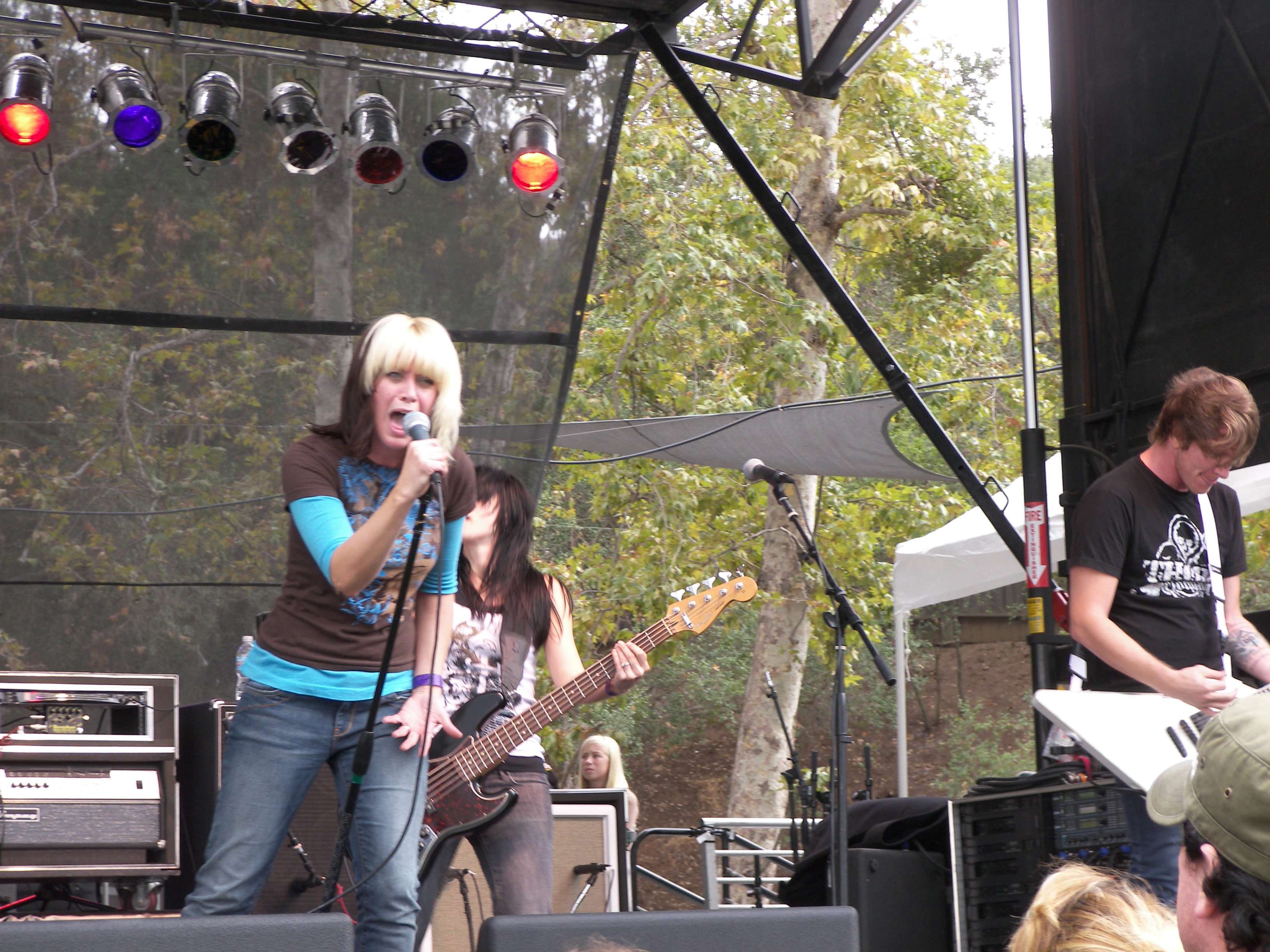 Contemporary Christian music group Fireflight in concert at Cornerstone California Festival in Irvine, California.